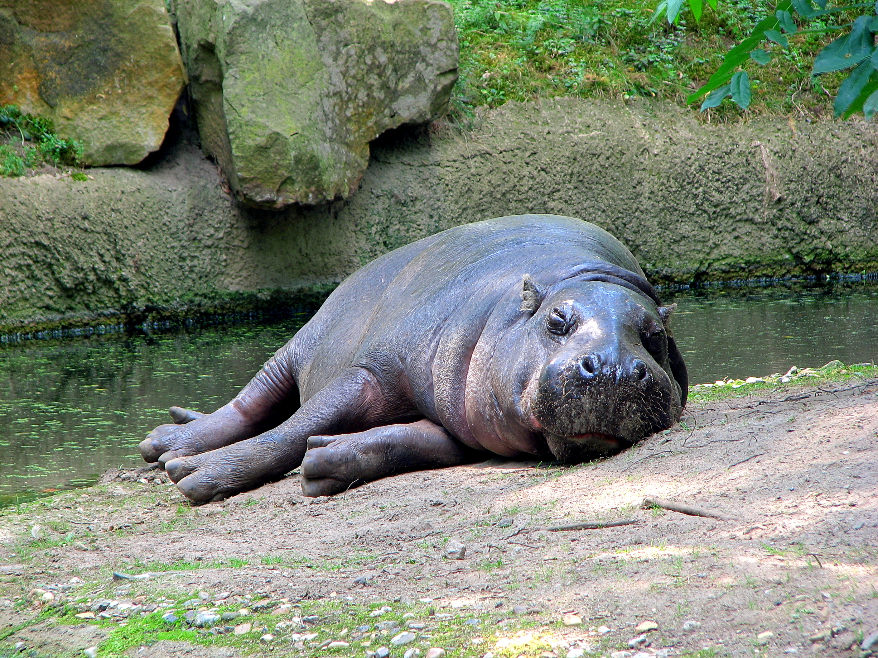 Pigmy hippo (Hexaprotodon liberiensis), Berlin Zoo, Germany.